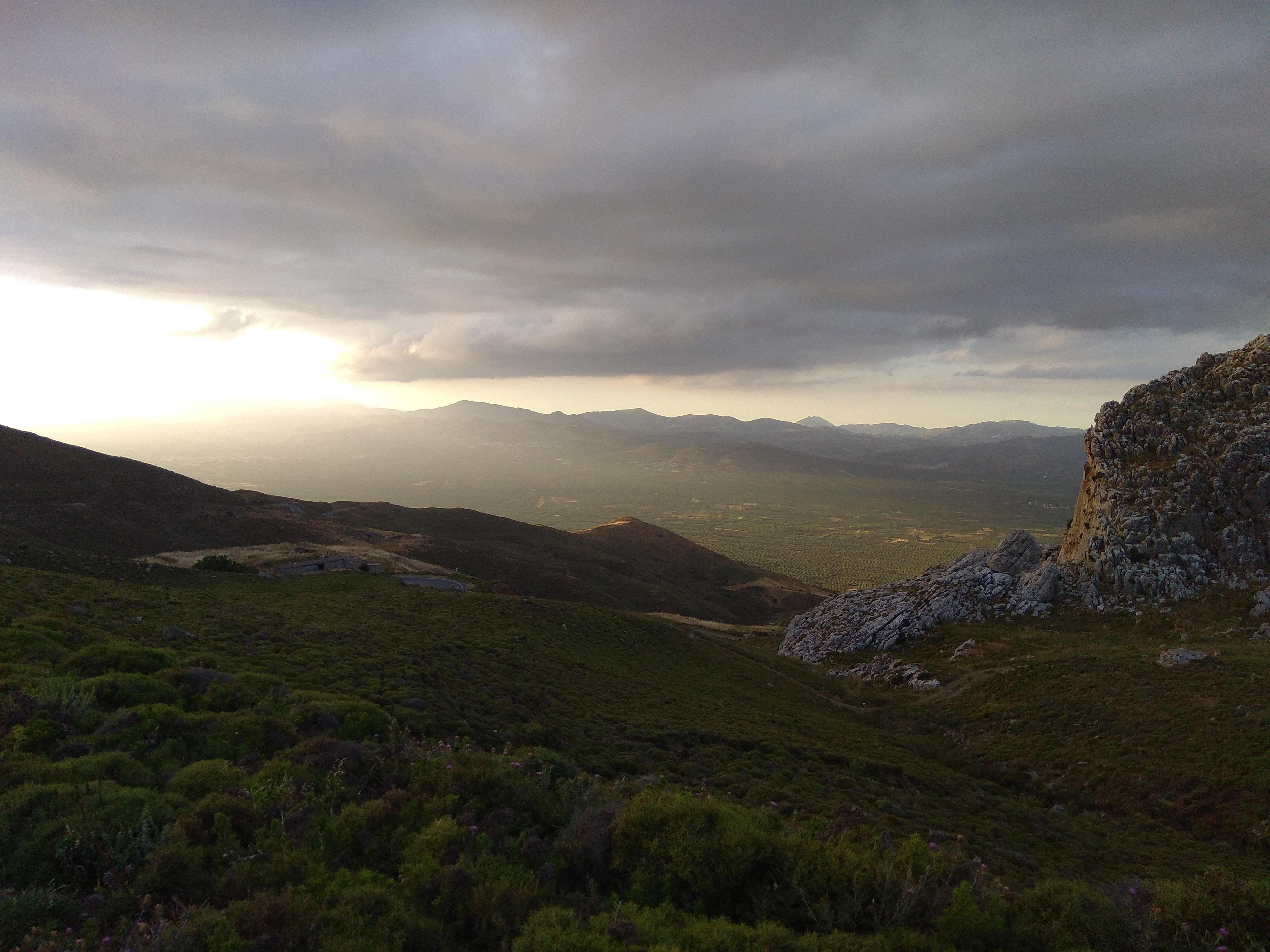 The view to the north from Asterousia mountains of Crete viewing the Messara plains and Psiloritis